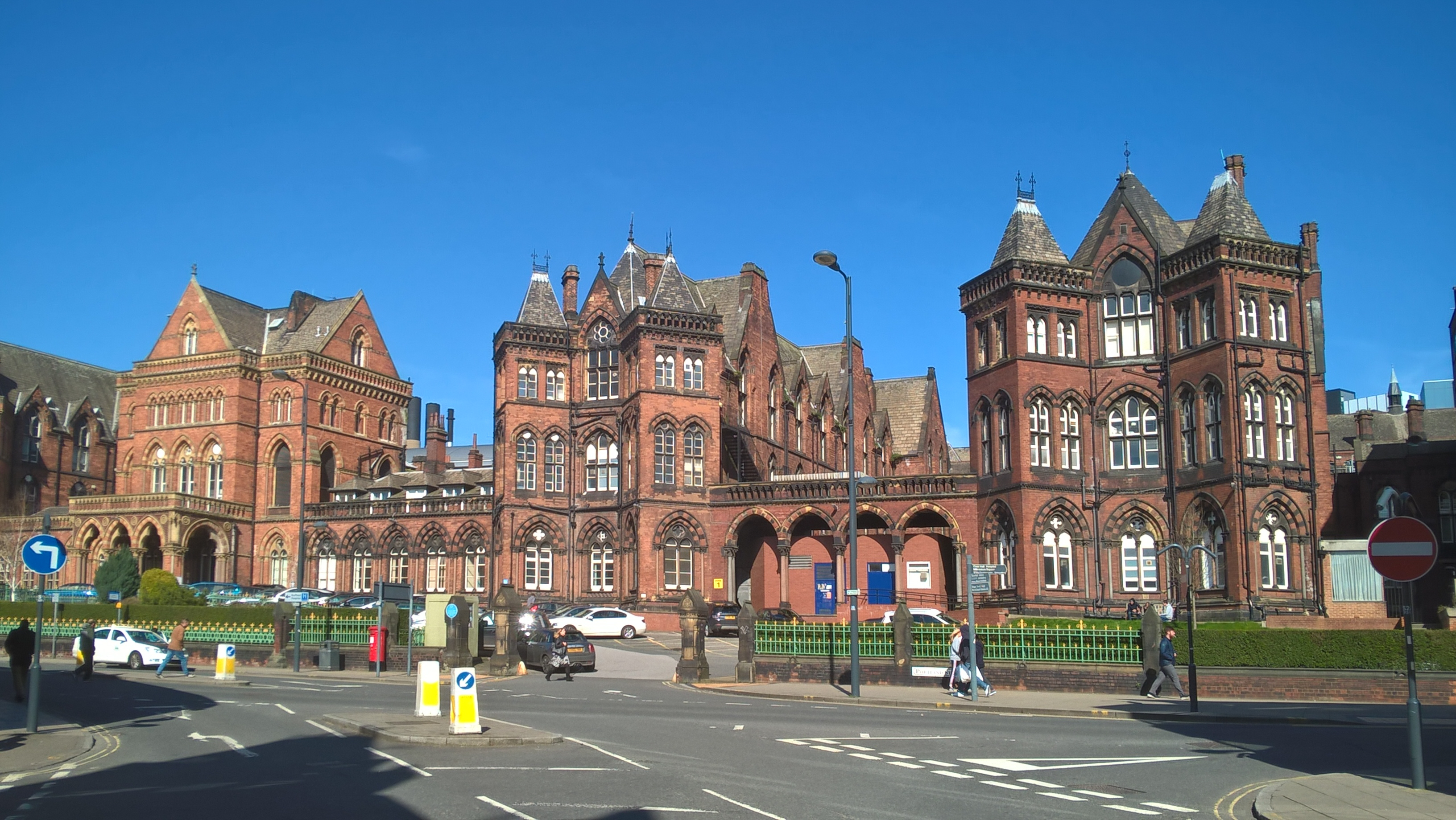 Leeds General Infirmary. Old buildings viewed from the South side. Junction of Portland Street and Great George Street.